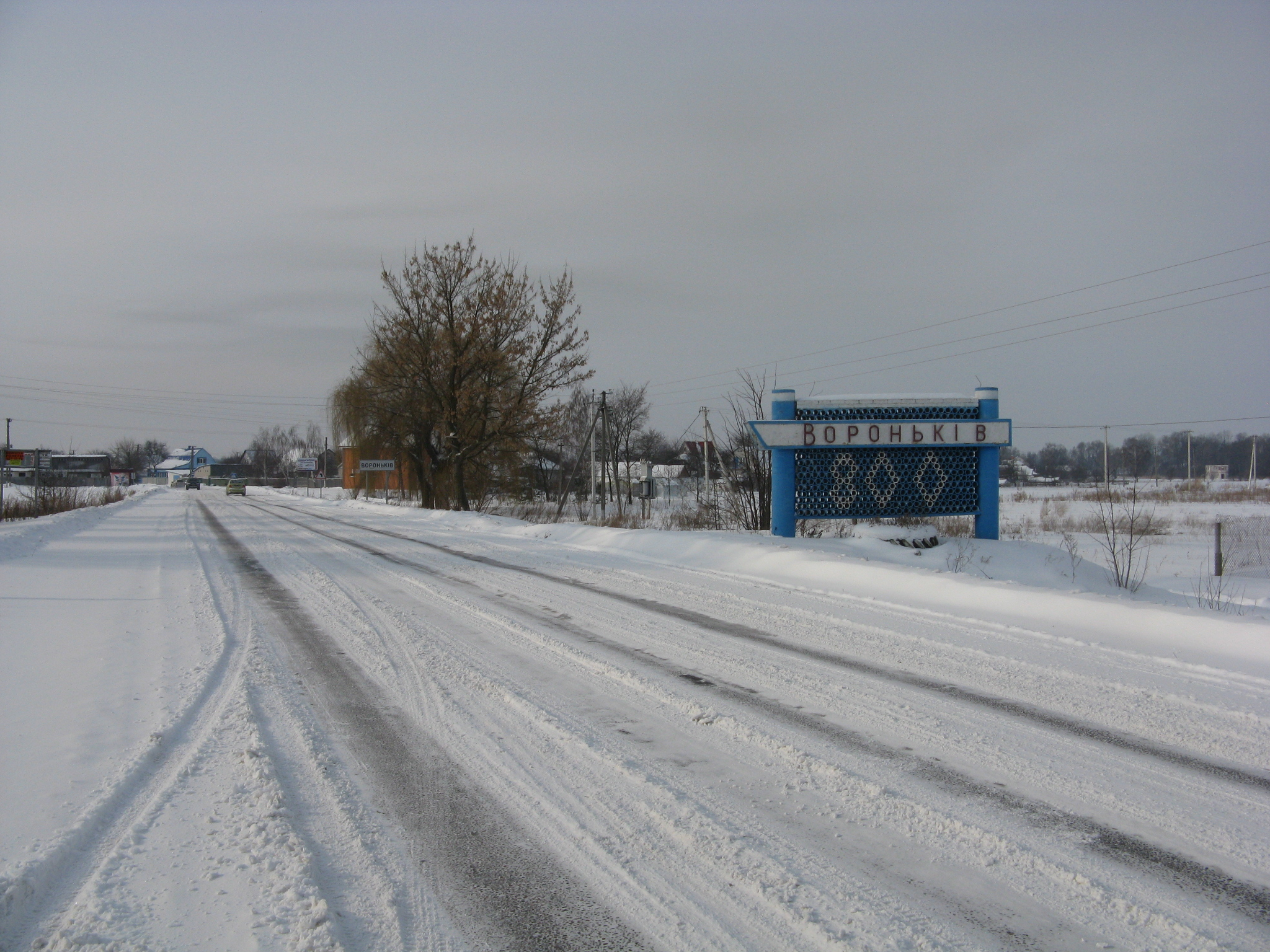 Sign at a village Вороньков. Kyiv area. Ukraine